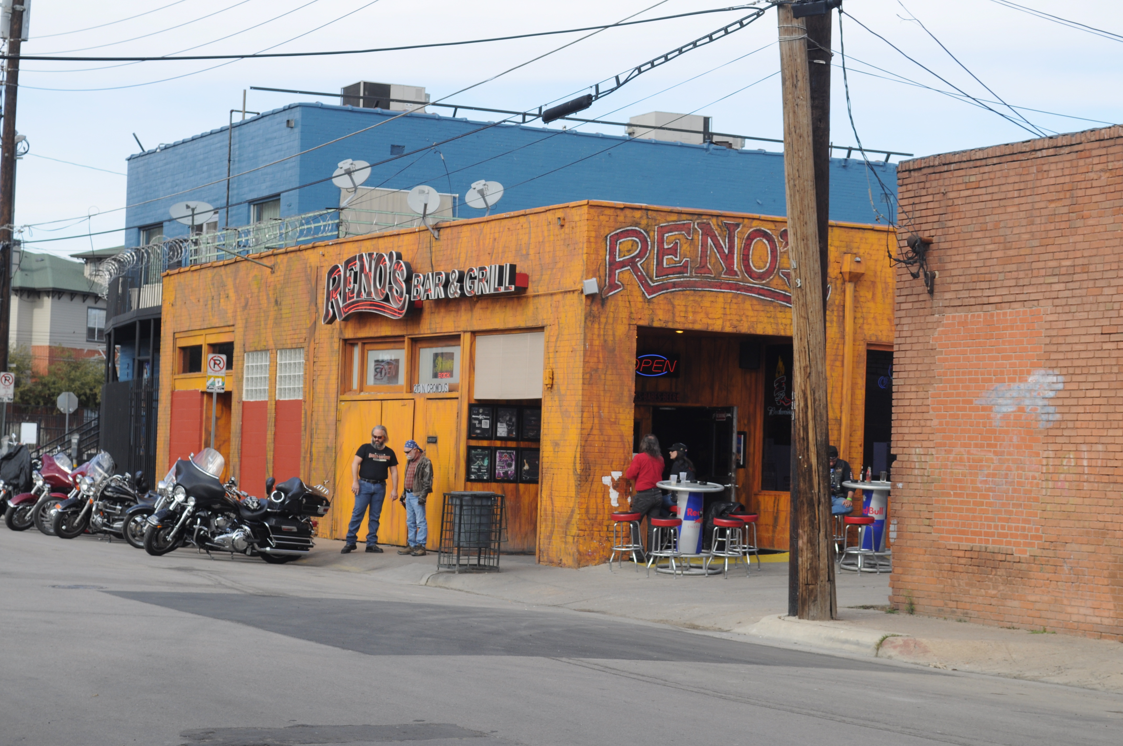 Reno's Chop Shop Bar & Grill, 210 N Crowdus Street, Deep Ellum, Dallas, Texas, U.S.A.